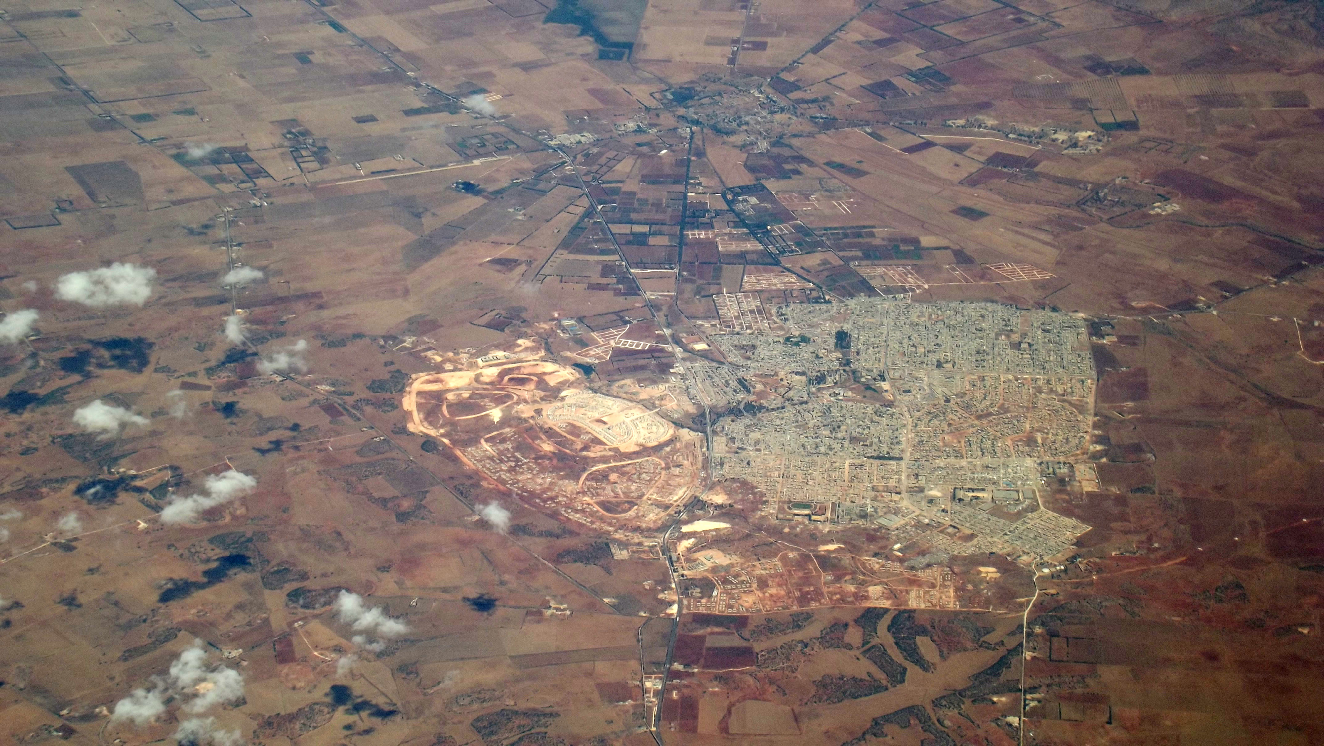 Libyan settlement, probably Marj